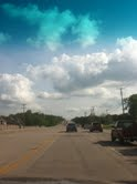 Looking South on Farm to Market Road 157, while it is located in Euless.